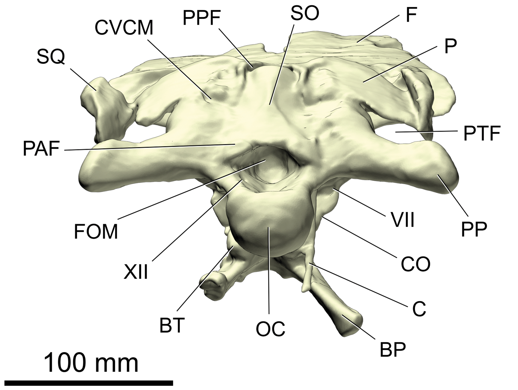 Volume-rendered CT images of the braincase of the sauropod dinosaur Spinophorosaurus nigerensis (GCP-CV-4229) from the Jurassic of Aderbissinat, Niger; opaque and unfilled in caudal view.